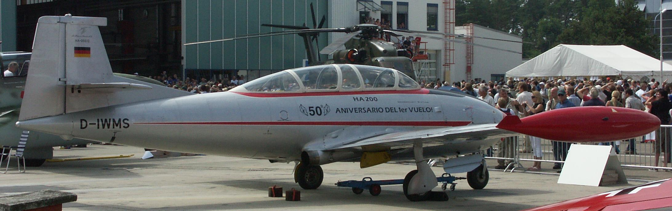 Hispano Aviacion HA-200 Photo by Jean-Patrick Donzey